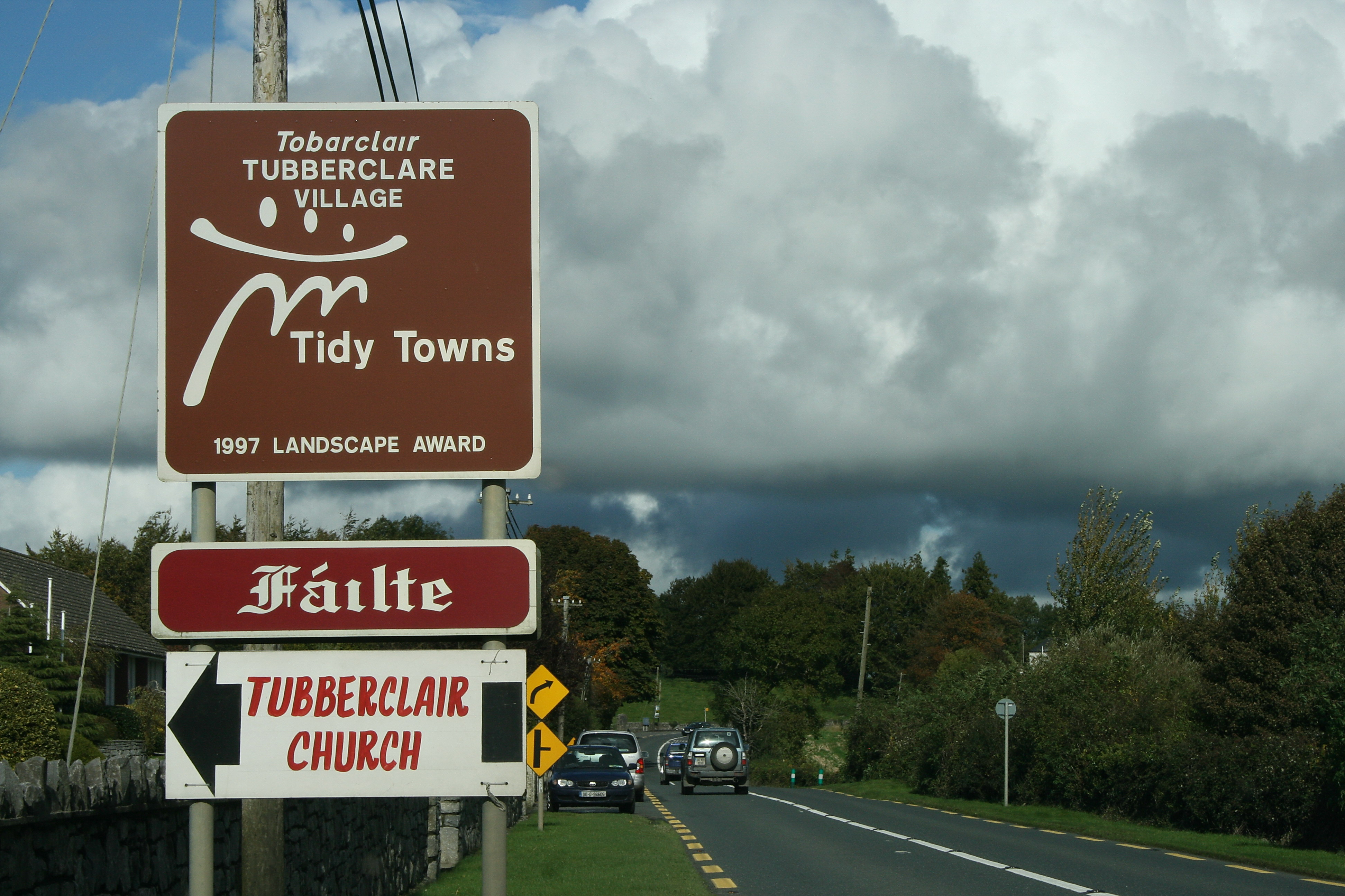 Tobberclare on the N55 north of Athlone in County Westmeath, Ireland